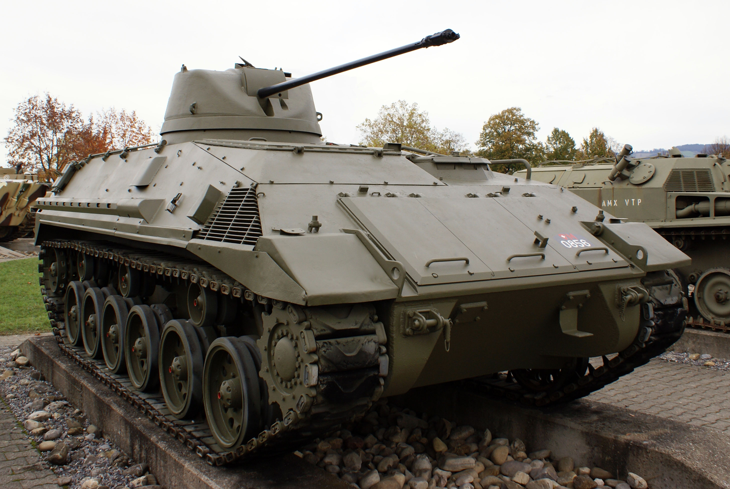 Swiss Army. Armoured personnel carrier Saurer "Tartaruga". Trial prototype. Tank Museum Thun.